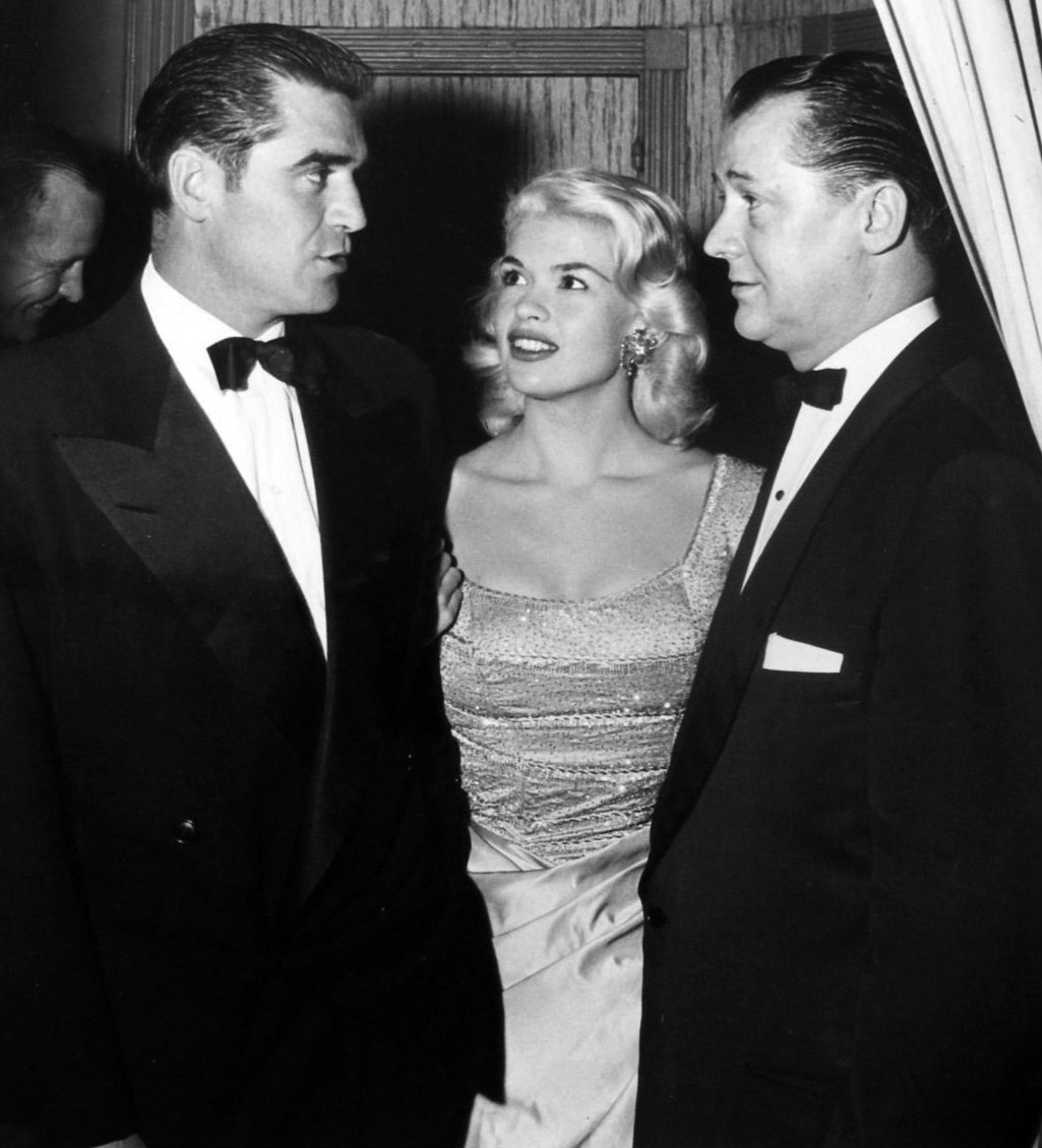 Photo of actor Steve Cochran, actress Jayne Mansfield and Ed Wynne, the owner of the Harwyn Club in New York, where the photo was taken.